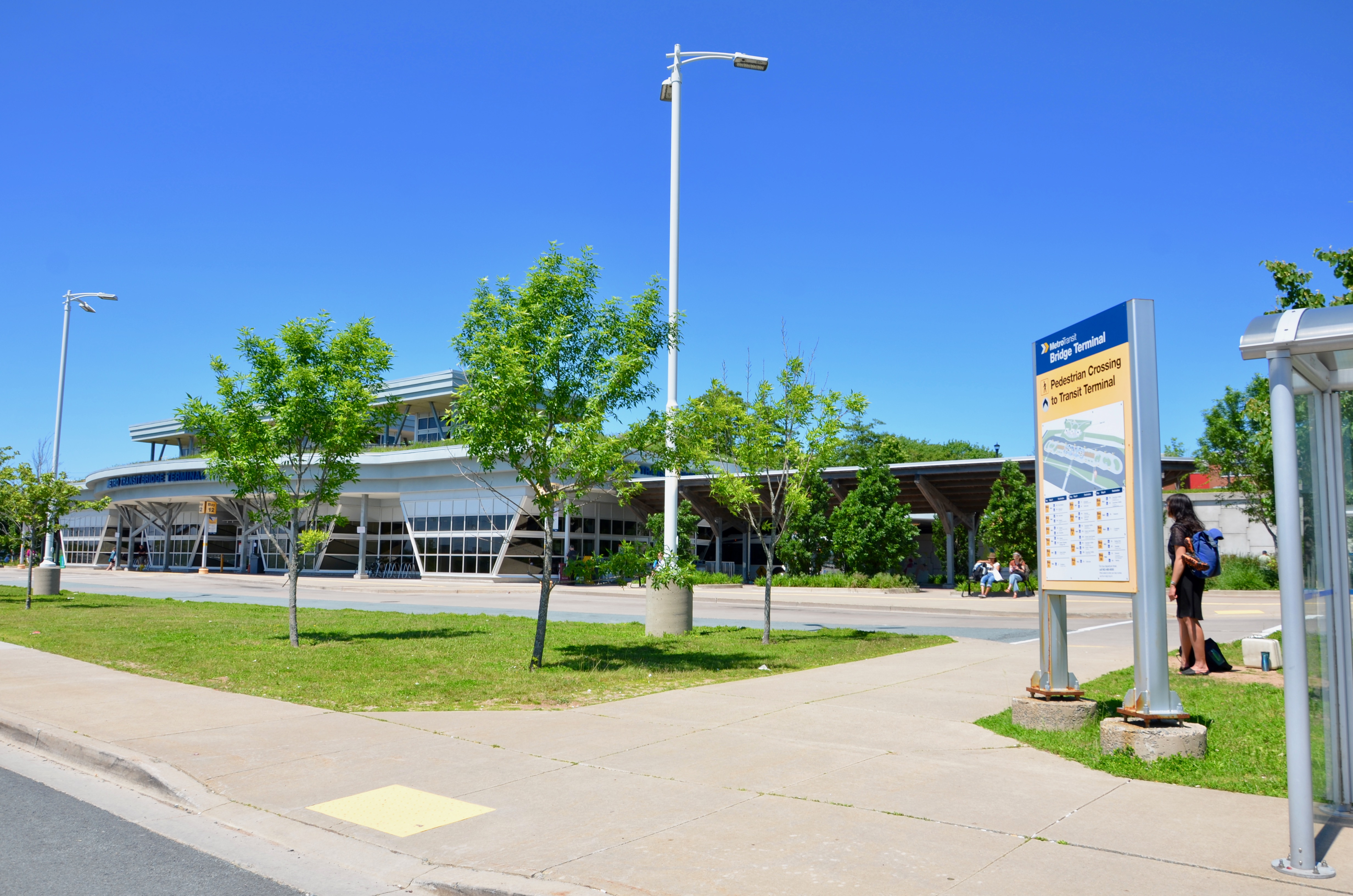 An updated picture of the Halifax Transit Dartmouth Bridge Terminal taken July 2019